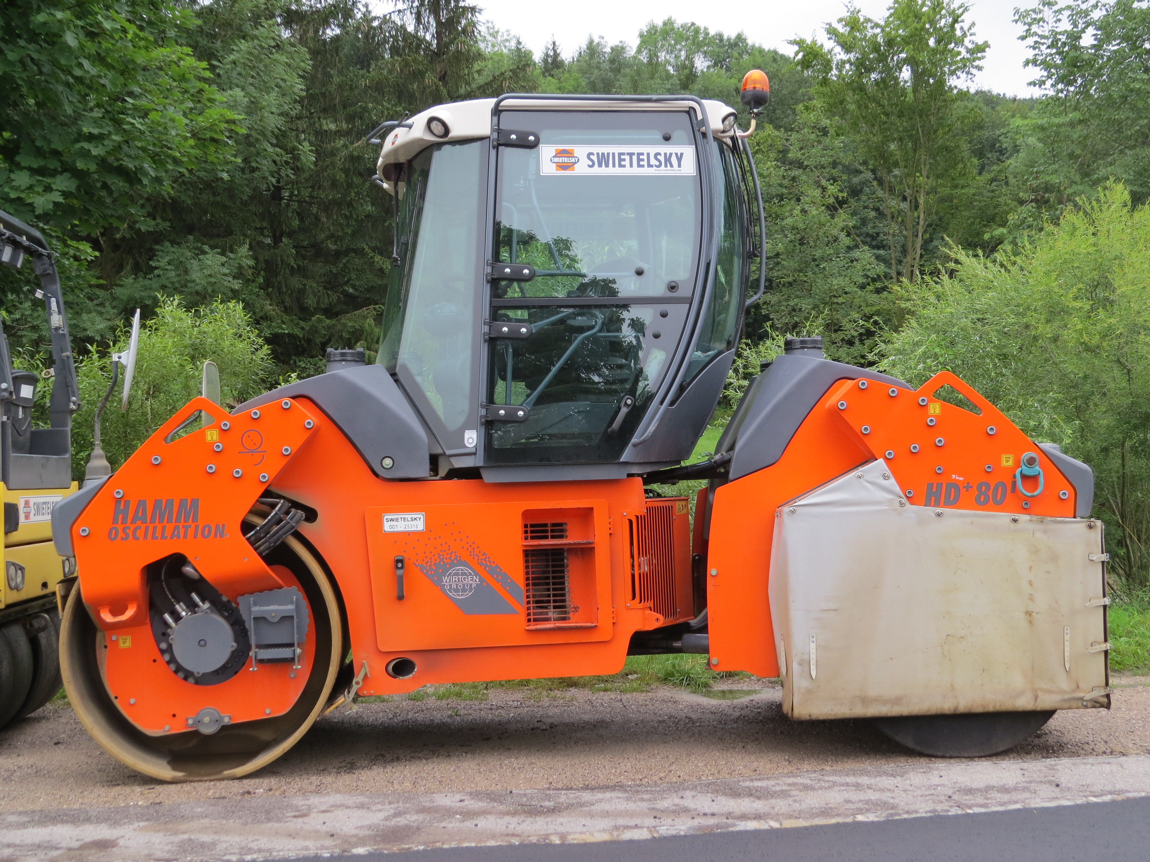 Hamm HD 80 from Swietelsky in Kirchberg an der Pielach